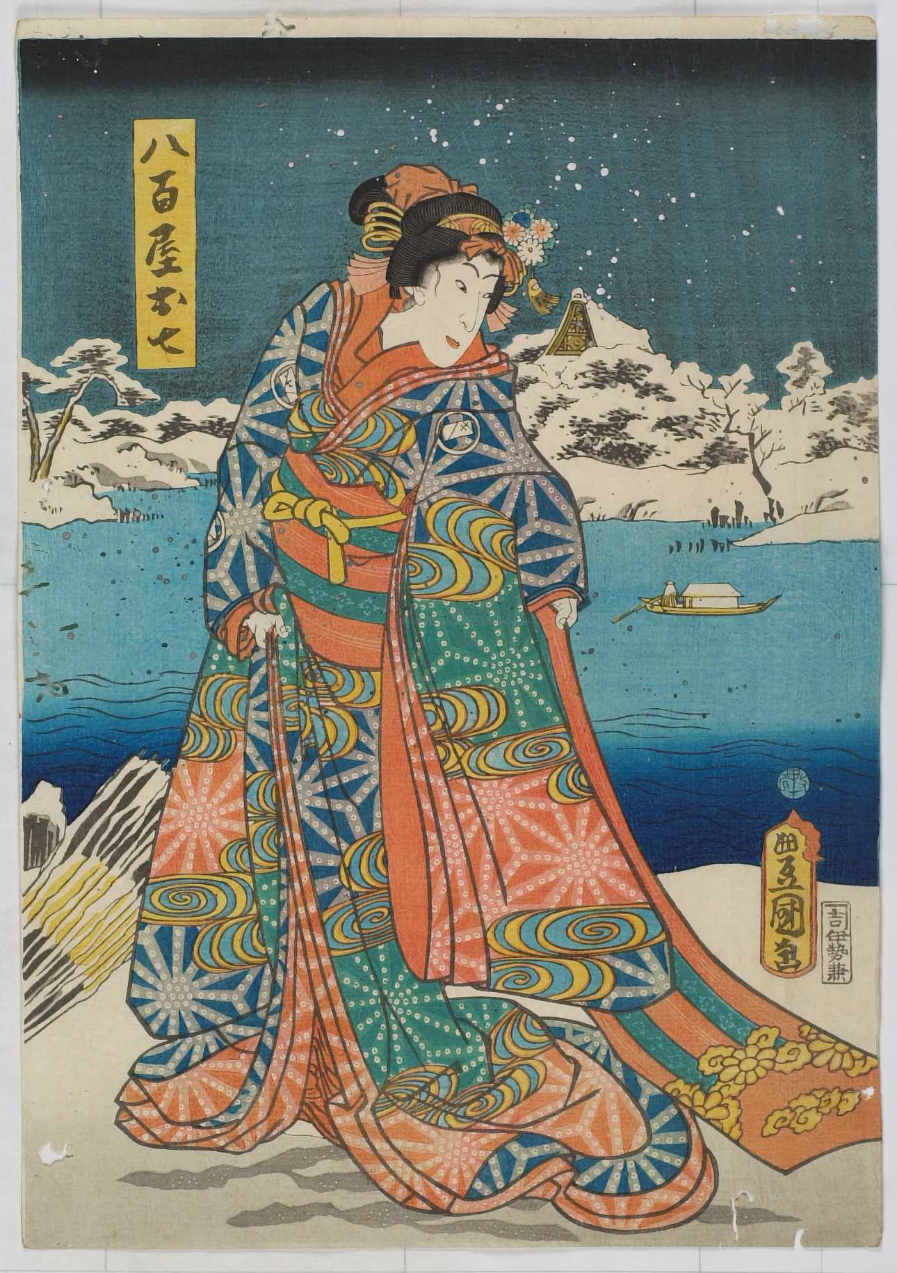 Woodblock print by Utagawa Kunisada I, here signing with 'Toyokuni ga'; left sheet of a kabuki triptych; the actor Sawamura Tanosuke III as yaoya Oshichi (八百屋お七); publisher: Iseya Kanekichi